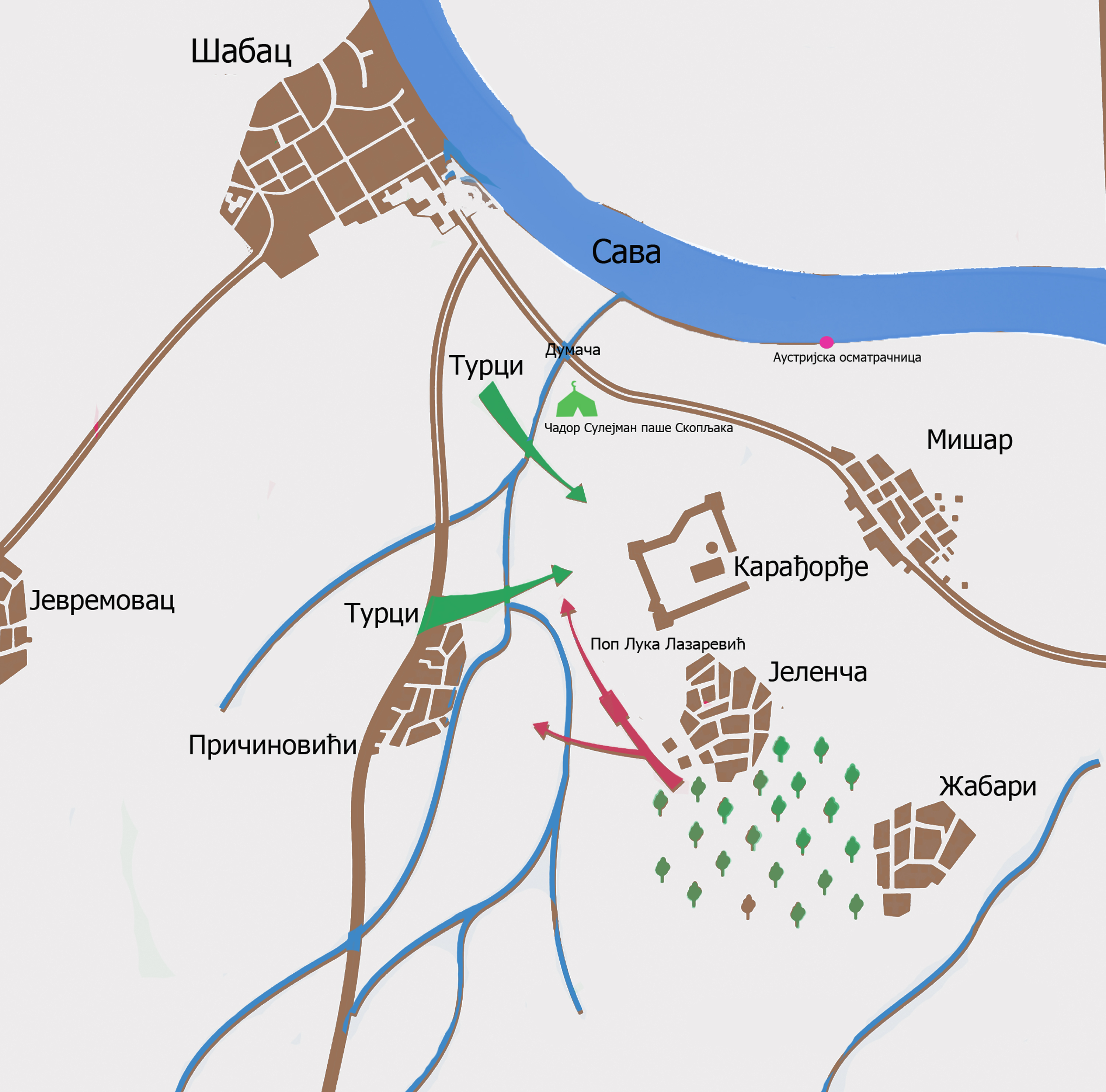 Plan of Mišar battle